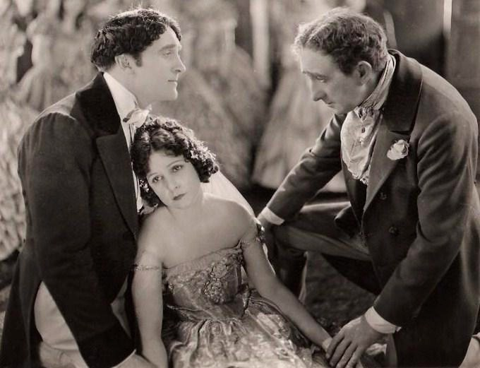 L. to R. : Wyndham Standing, Norma Talmadge & Alec B. Francis in Smilin' Through - original image (damaged : see source) modified